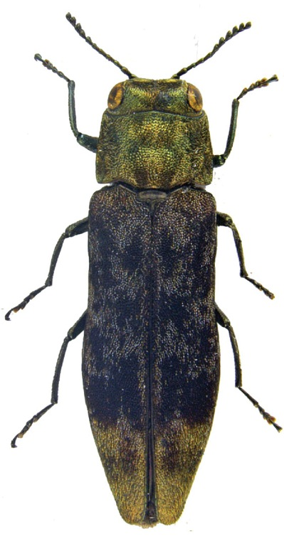 Agrilus diversornatus Jendek 2013, holotype.